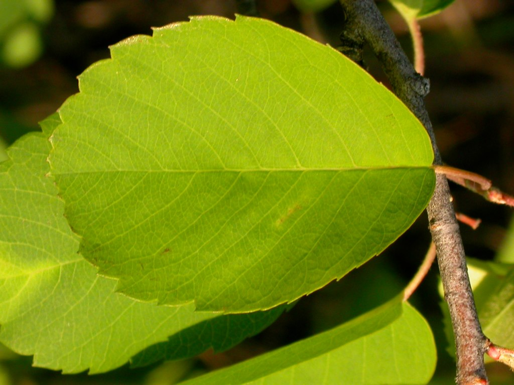 The leaf shows the diagnostic serrations that occur only in the distal half of the margin.